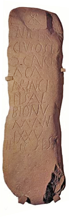 A funerary stele regarding the albionic prince, Nicer Clutosi. Early part of the 4th Century C.E. Was found in 1932 in the municipality of Vegadeo. It is currently displayed in the Archaeological Museum of Oviedo.